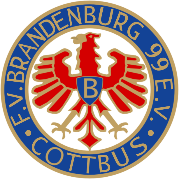 Logo of FV Brandenburg Cottbus, German football team.